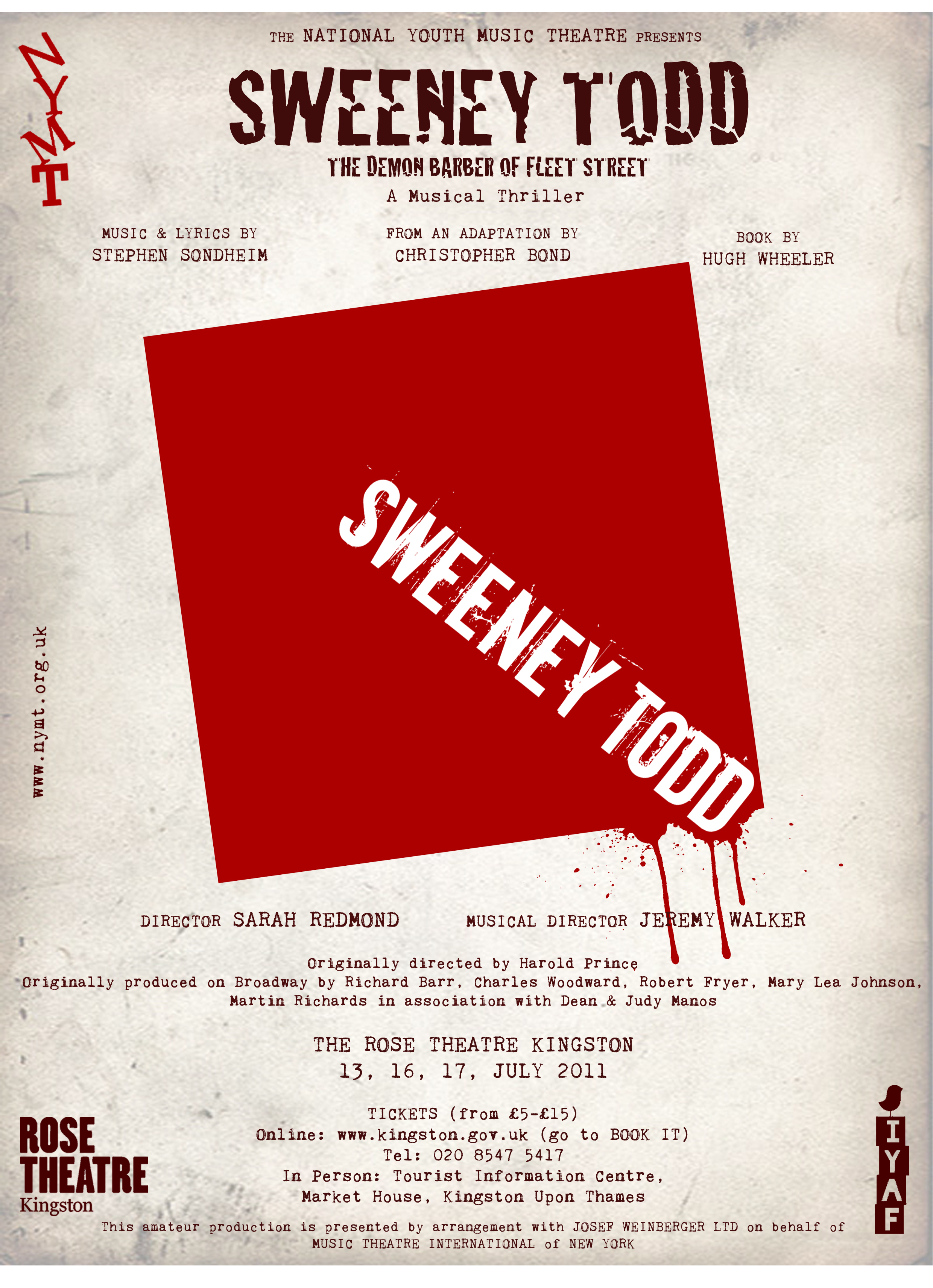 Flyer for NYMT's production at The Rose, Kingston 2011